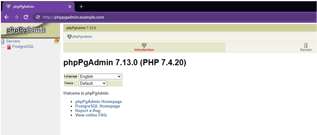 phpPgAdmin 4.2